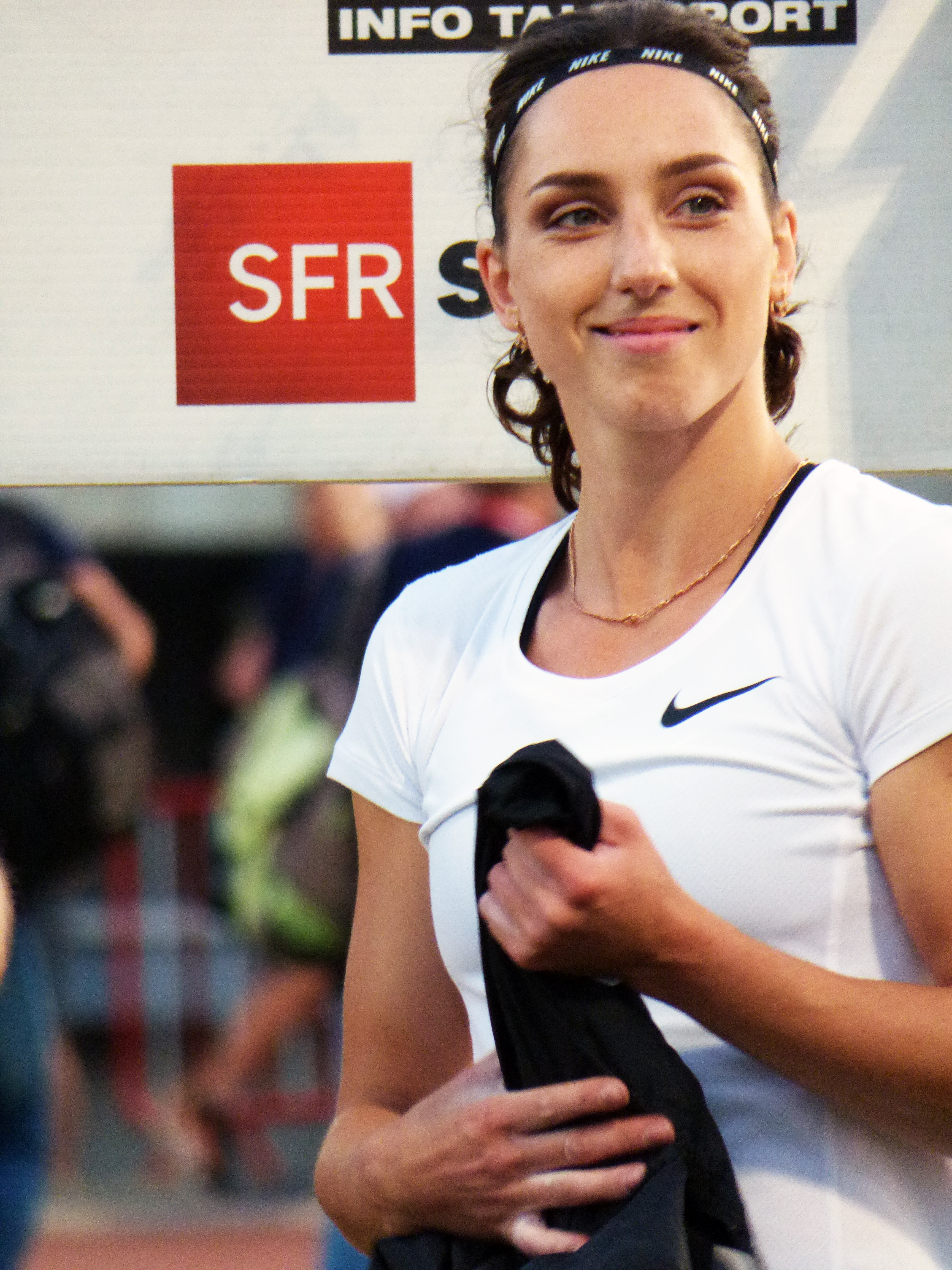 Nancy juin 2018 Meeting D'athlétisme